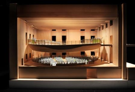 Gehry Partners Model of the Pierre Boulez Concert Hall